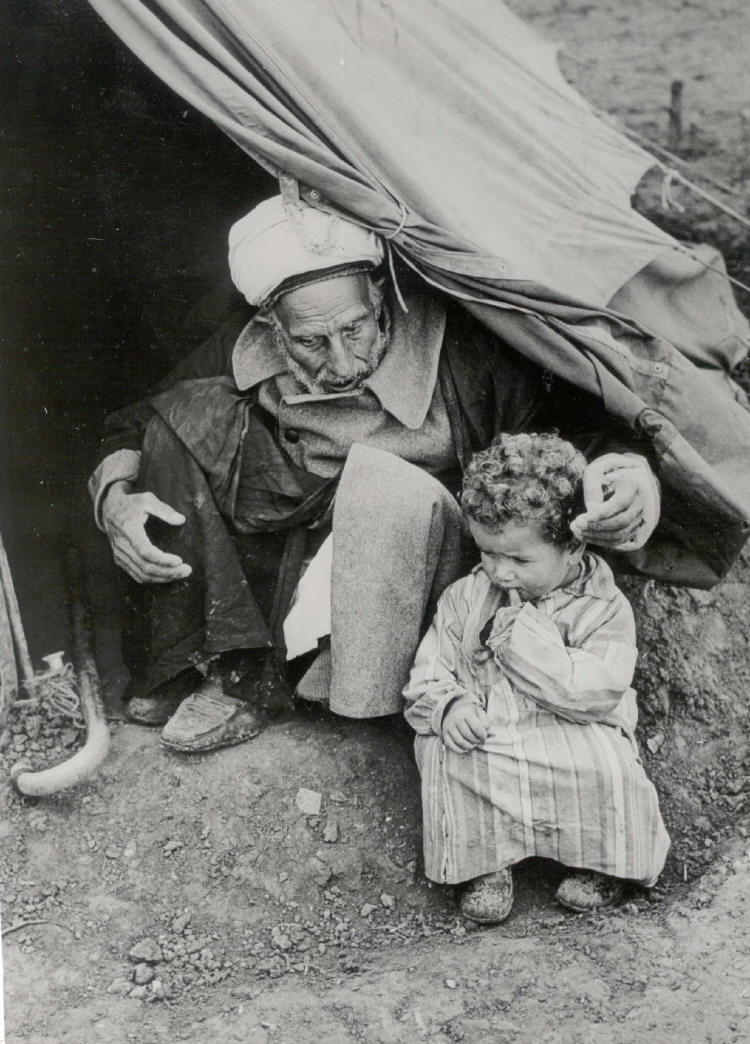 Nakba 1948 oldman and baby tent